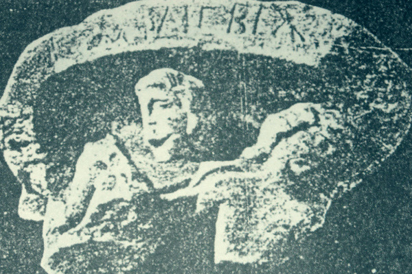 Archaeological artefacts from the region of the mineral springs